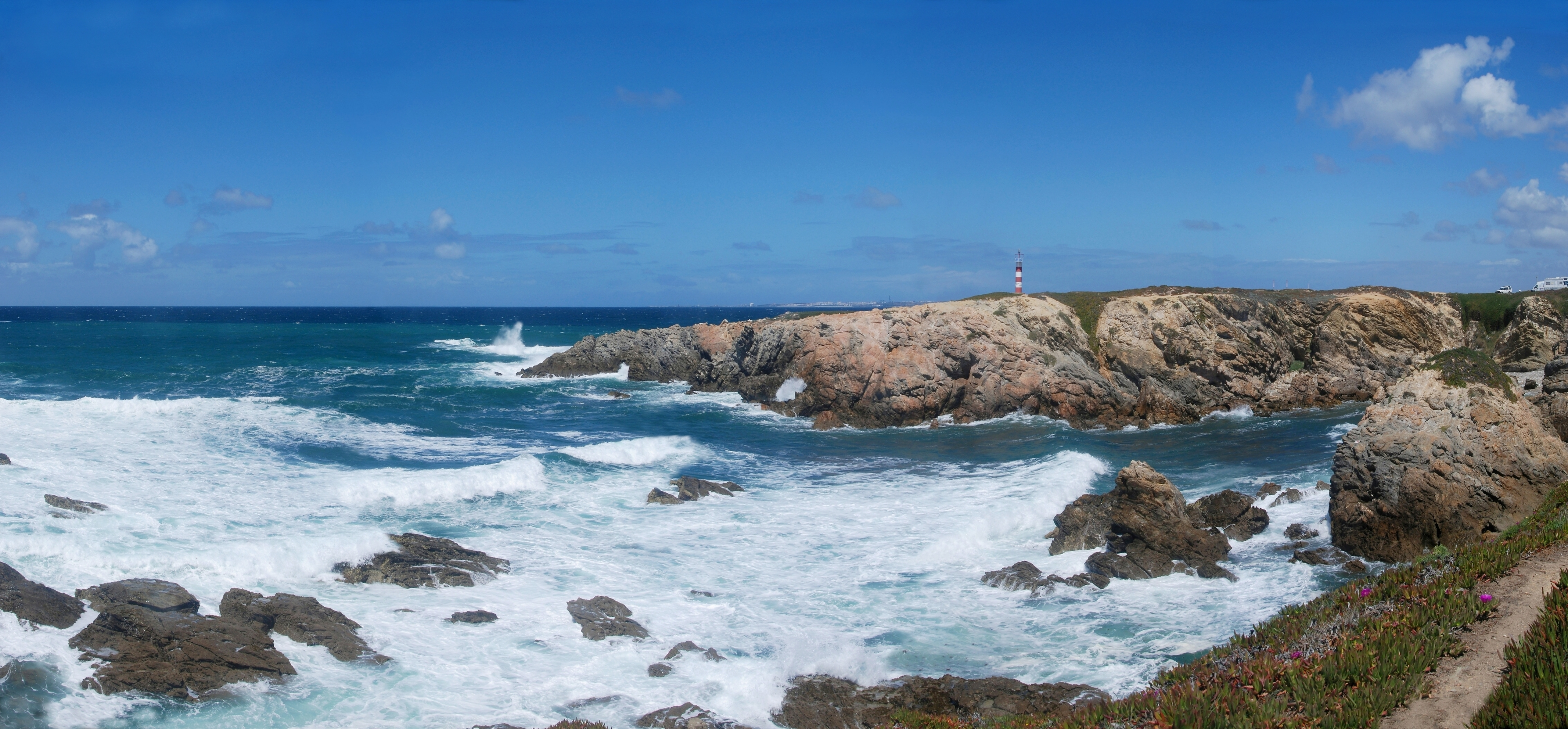 The waves at Porto Covo, west coast of Portugal. Stitch of four photos.